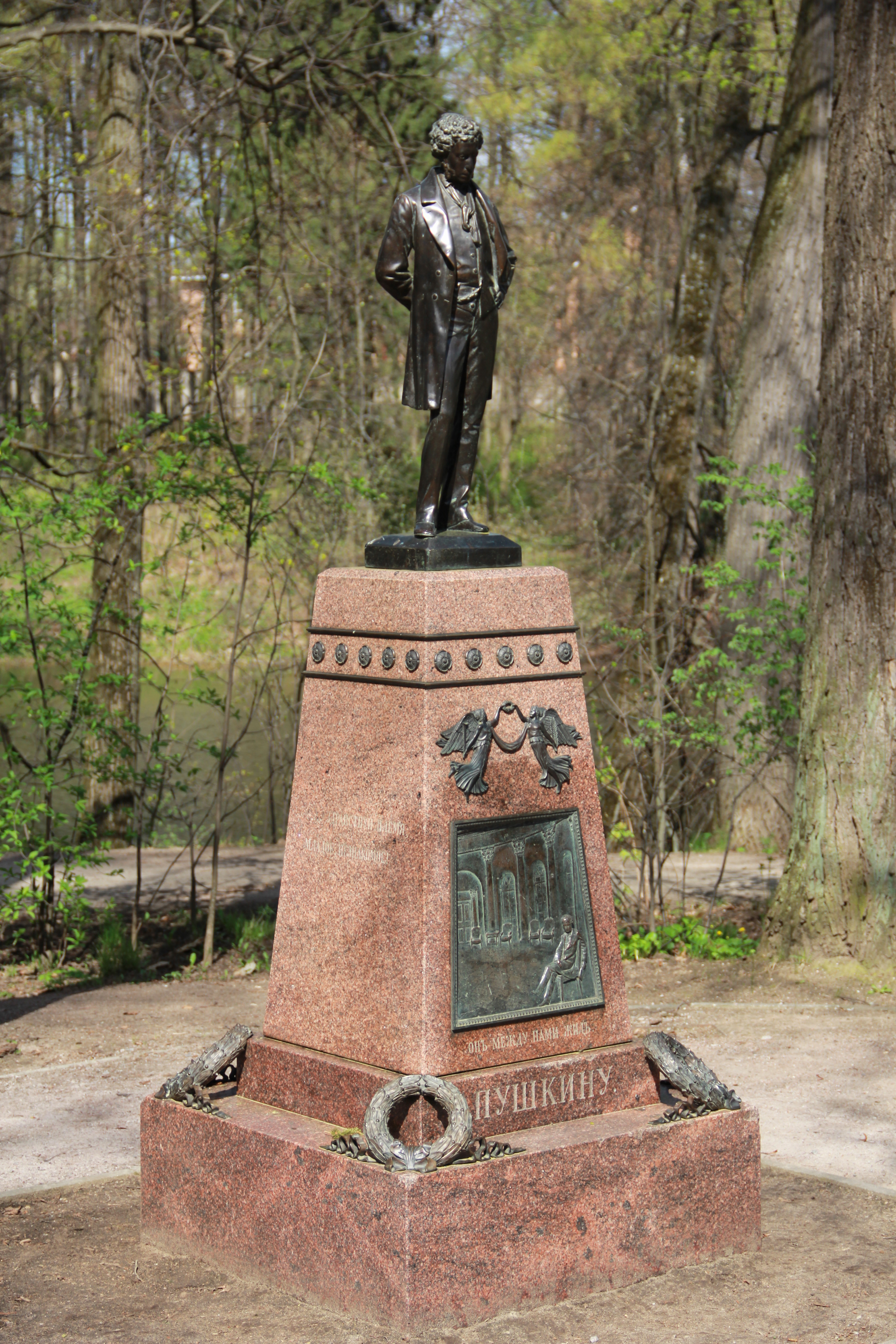 The monument to Pushkin in the mansion Ostafyevo